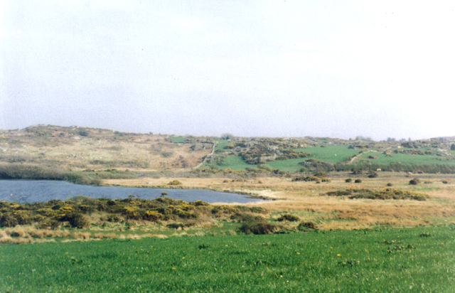 Llyn Llygeirian, Anglesey. view E of the southern shores of the lake, with the rocky outcrop of Mynydd Mechell in the distance (SH3589).